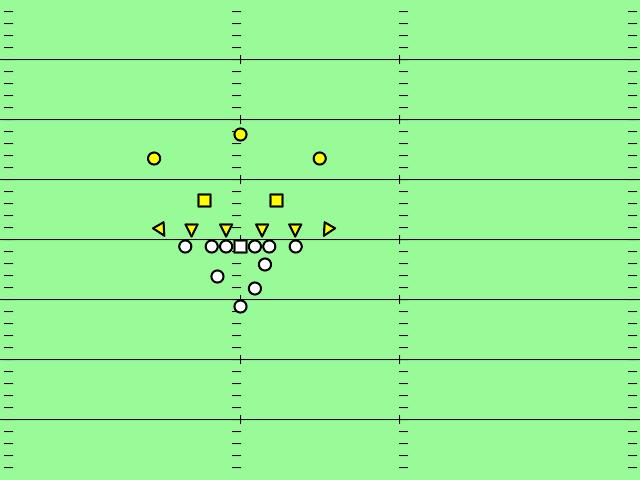 Short Punt formation versus a 6-2-3 defense. Diagram based on short punt plays shown in Dana Bible's 1947 text, "Championship Football".